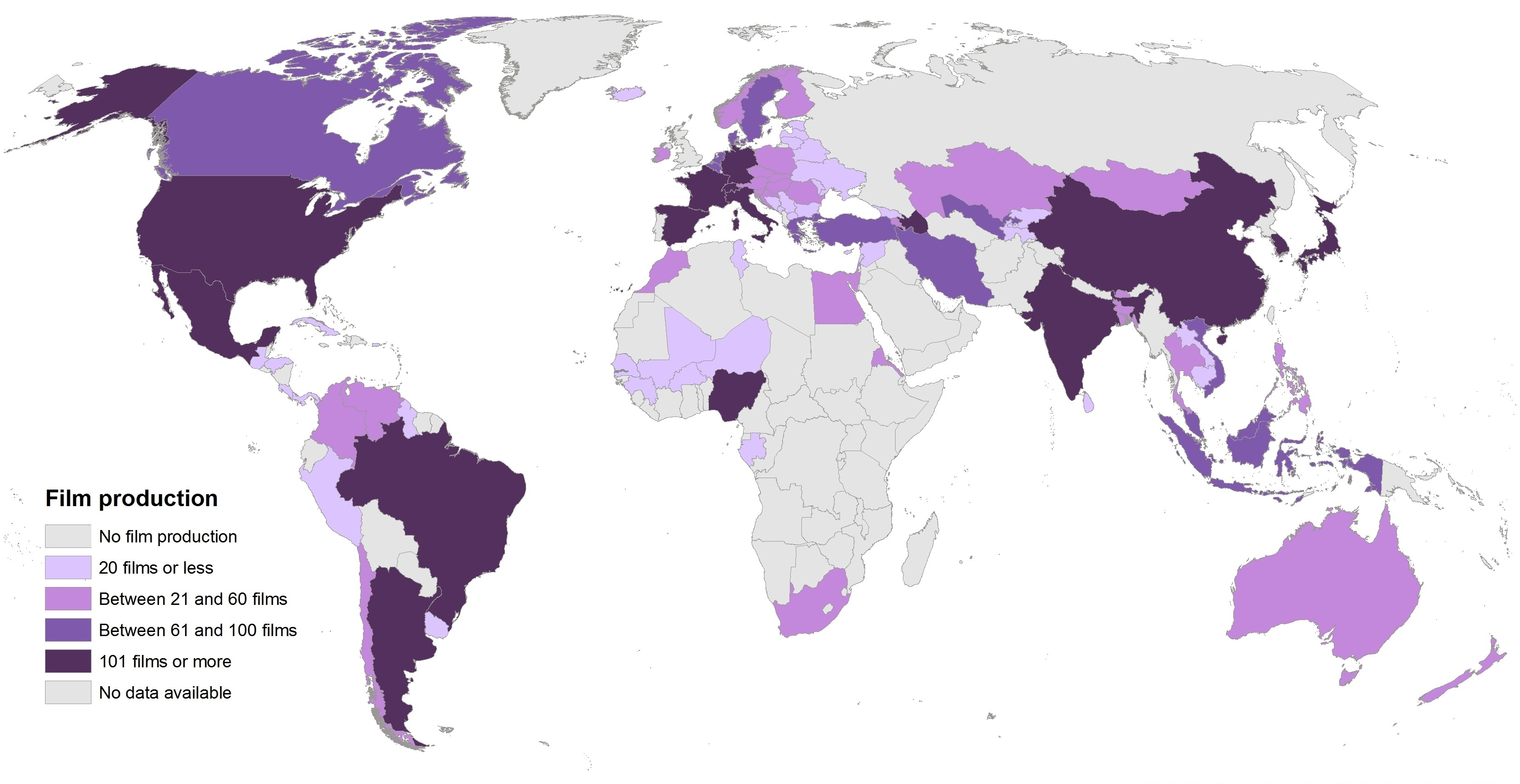 UNESCO 2015 film production map